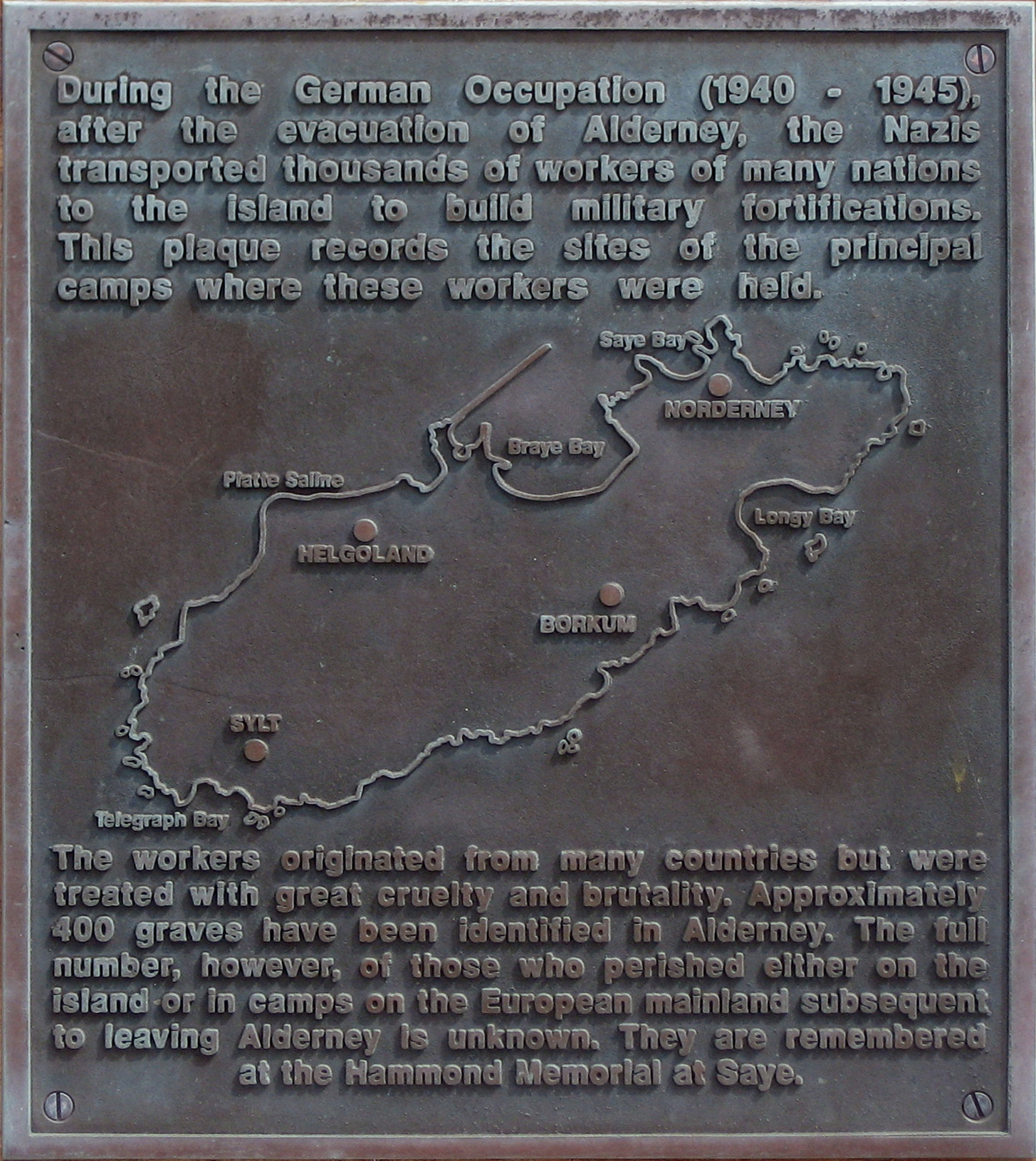 During the German Occupation (1940 - 1945), after the evacuation of Alderney, the Nazis transported thousands of workers of many nations to the island to build military fortifications. This plaque records the sites of the principal camps where these workers were held. The workers originated from many countries but were treated with great cruelty and brutality. Approximately 400 graves have been identified in Alderney. The full number, however, of those who perished either on the island or in camps on the European mainland subsequent to leaving Alderney is unknown. They are remembered at the Hammond Memorial at Saye. Norderney - Helgoland - Borkum - Sylt